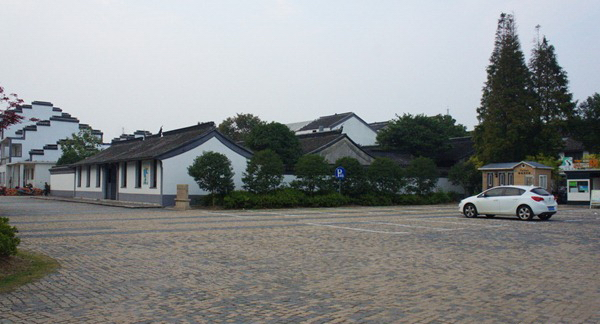 Xu Xiake's old house in Xuxiake town, Jiangyin, Wuxi, China.